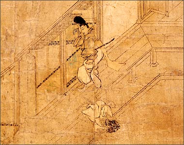 Saigyo Monogatari Emaki - Tsunetaka. Saigyo having decide to become a monk, he kicks his four year-old daughter from the veranda of his home as a gesture of his new- found resolve.